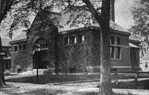 Bridgewater Public library, Massachusetts